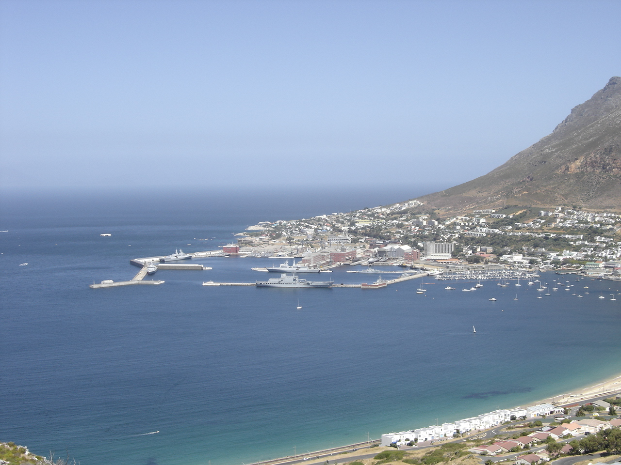 Description: Simonstown Harbour Source: Photographed by myself Date: 16 January 2006 Photographer: Timothy Haig-Smith Permission: Own work, share alike, attribution required (Creative Commons CC-BY-SA-2.5) Other versions of this file: None